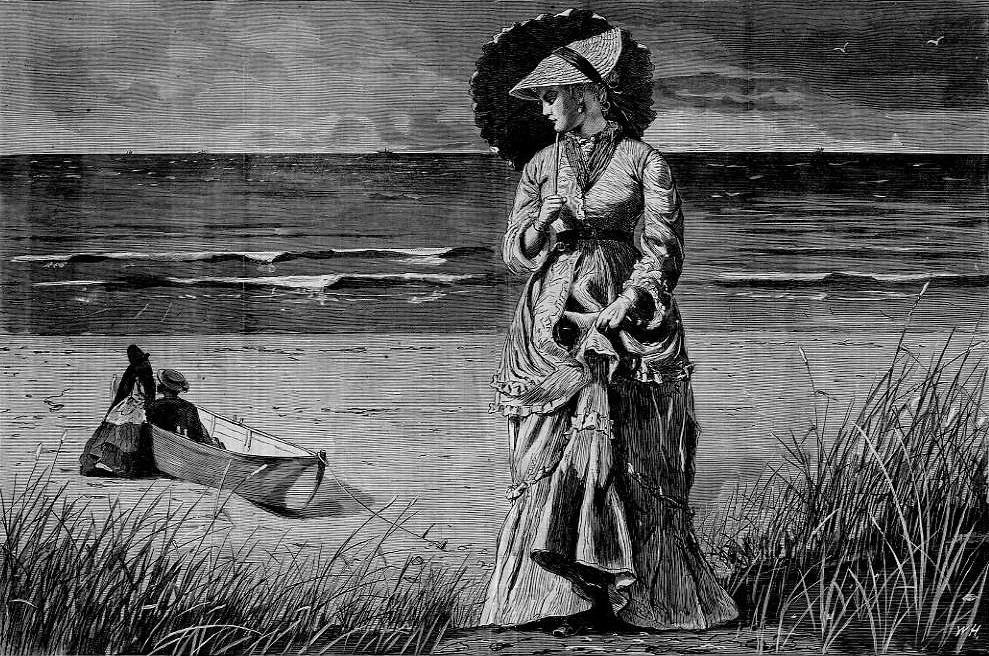 On the Beach -- Two Are Company, Three Are None, a wood engraving drawn by Winslow Homer and published in Harper's Weekly, August 17, 1872.